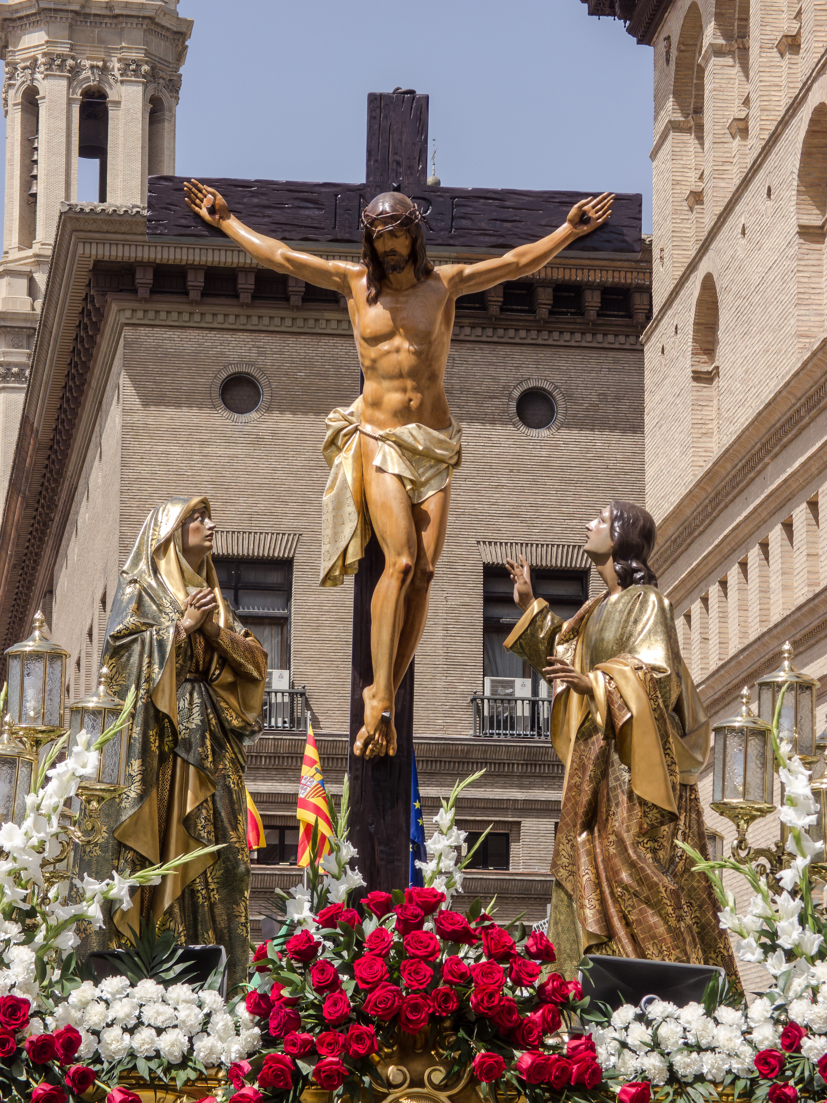 Como cada Viernes Santo a las 12 de la mañana comenzó la procesión de las Siete Palabras. Durante cuatro horas las calles de Zaragoza se llenaron de "perejiles" This is a photography of a Folklore festival in Spain (Wikidata id Q9075892).